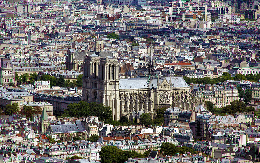 Remote view of Notre-Dame de Paris seen from Montparnasse Tower